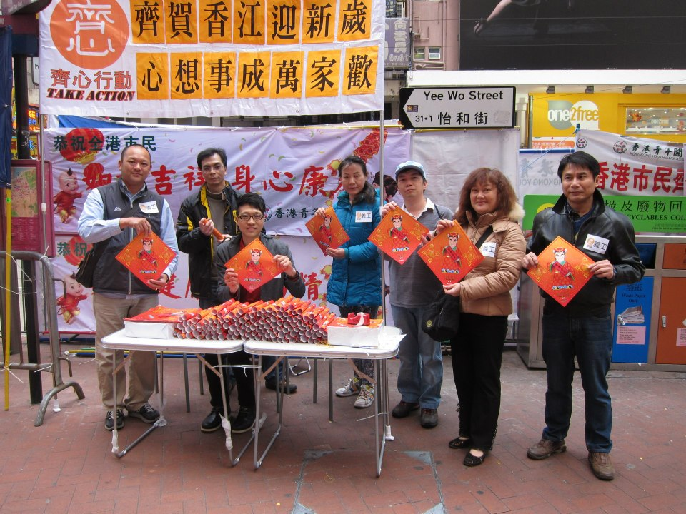 齊心行動